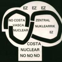 Logo of "Costa Vasca no-nuclear" campaign, in the Basque Country, against nuclear power plants